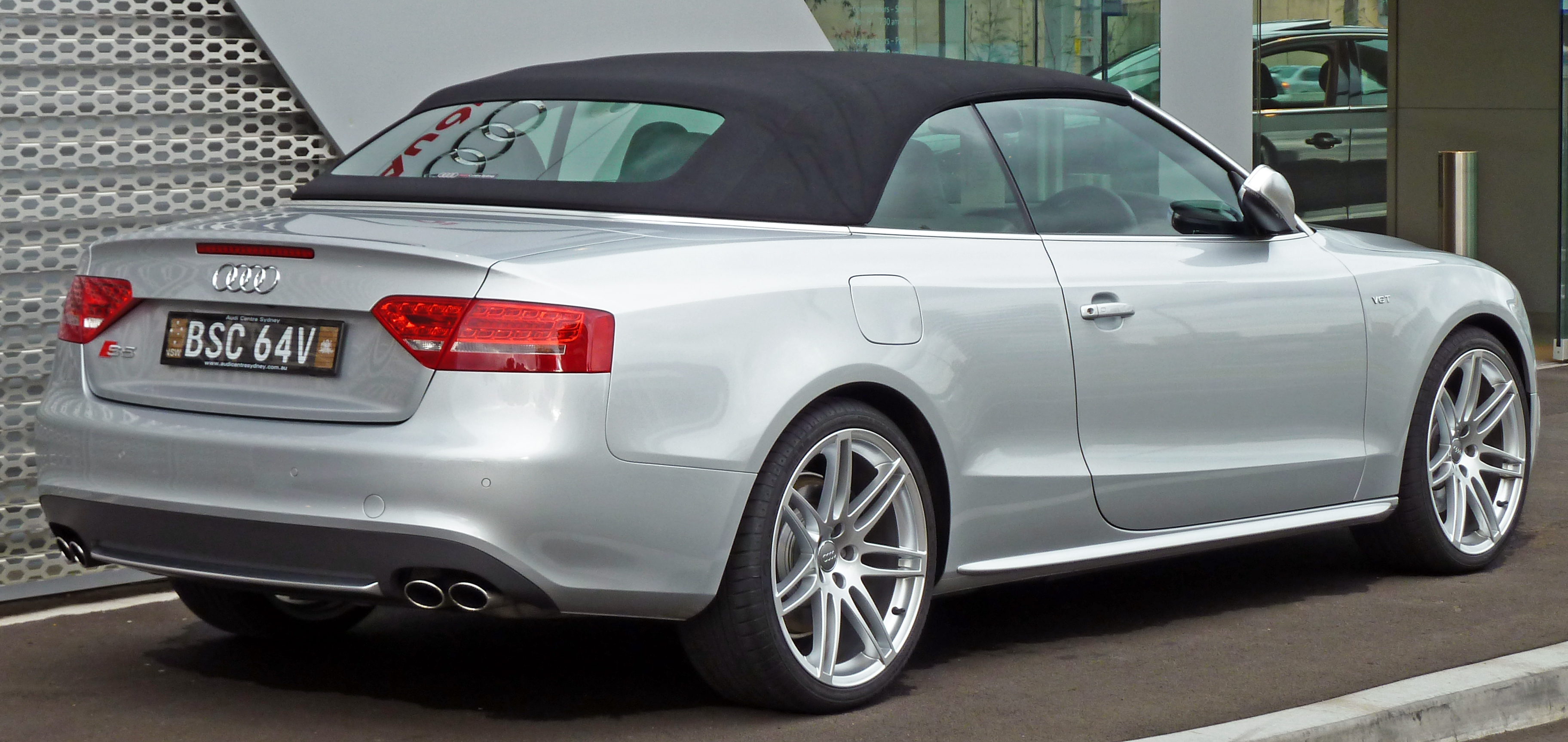 2009 Audi S5 (8F7 MY10) convertible. Photographed at the Audi Centre Sydney, Zetland, New South Wales, Australia.